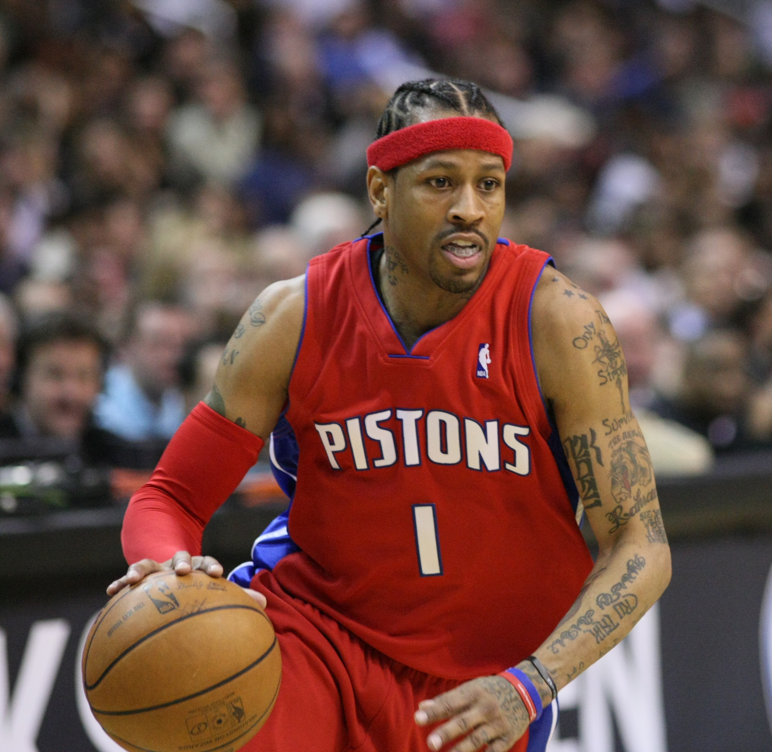 Allen Iverson, of the National Basketball Association's Detroit Pistons, during a 2008 basketball game against the Washington Wizards.